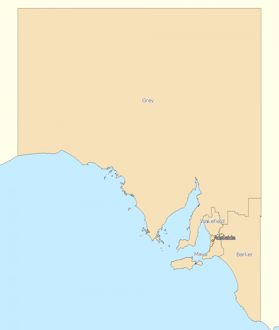 Incorporates or developed using Administrative Boundaries ©PSMA Australia Limited licensed by the Commonwealth of Australia under Creative Commons Attribution 4.0 International licence (CC BY 4.0). Derived from State and Territory Boundaries from the Australian Bureau of Statistics under Creative Commons Attribution 2.5 Australia license (CC BY 2.5 AU)